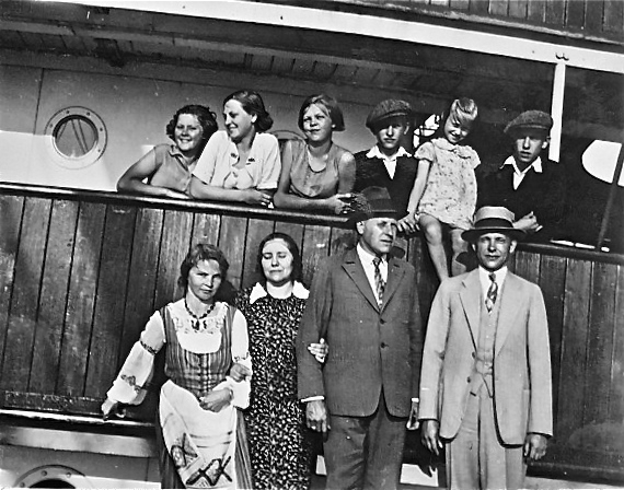 Digitization of a photograph taken on the foredeck of SS Kuressaar in 1936.